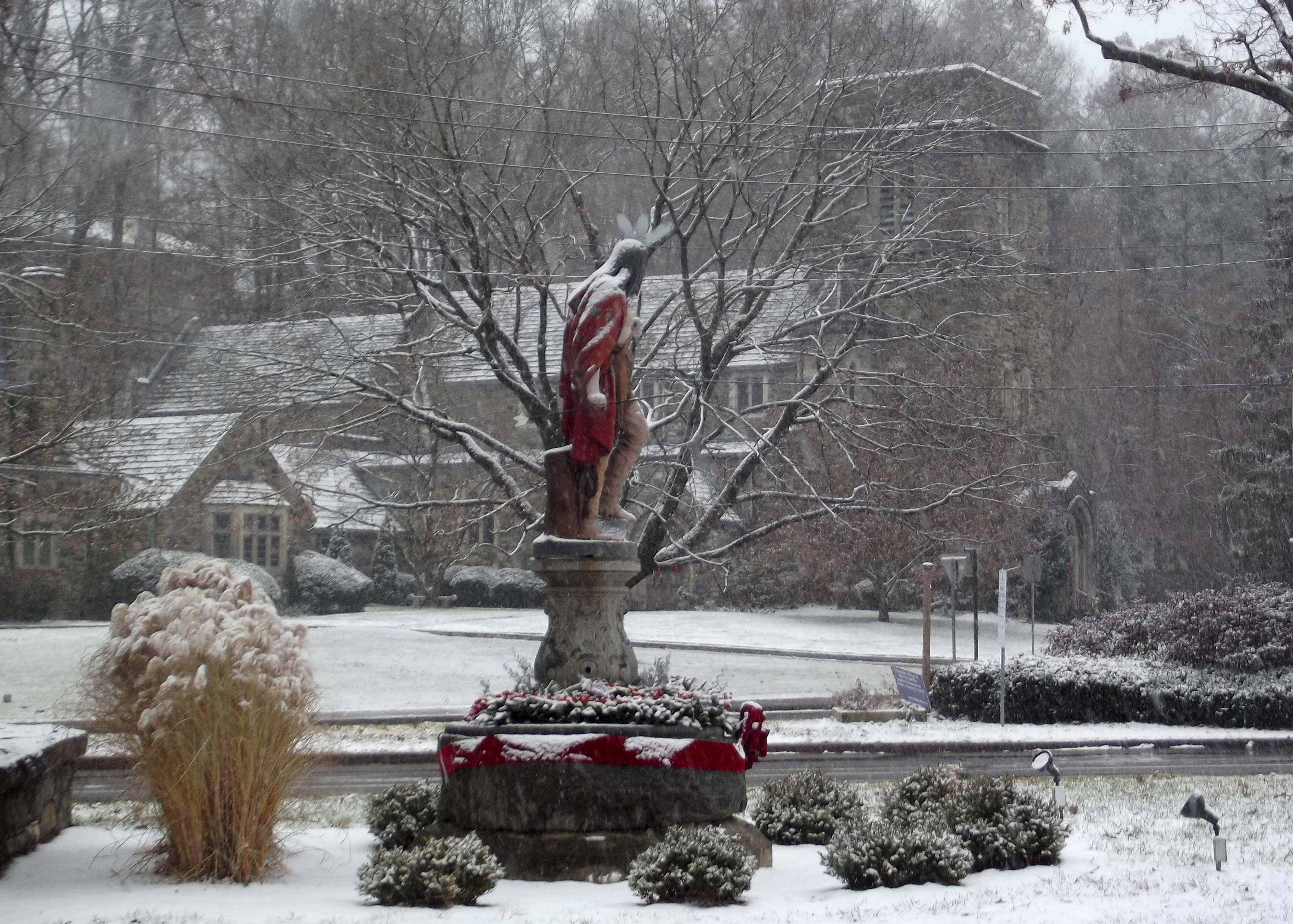 Chief Kisco in front of Saint Mark's Episcopal Church during an early December snowfall.